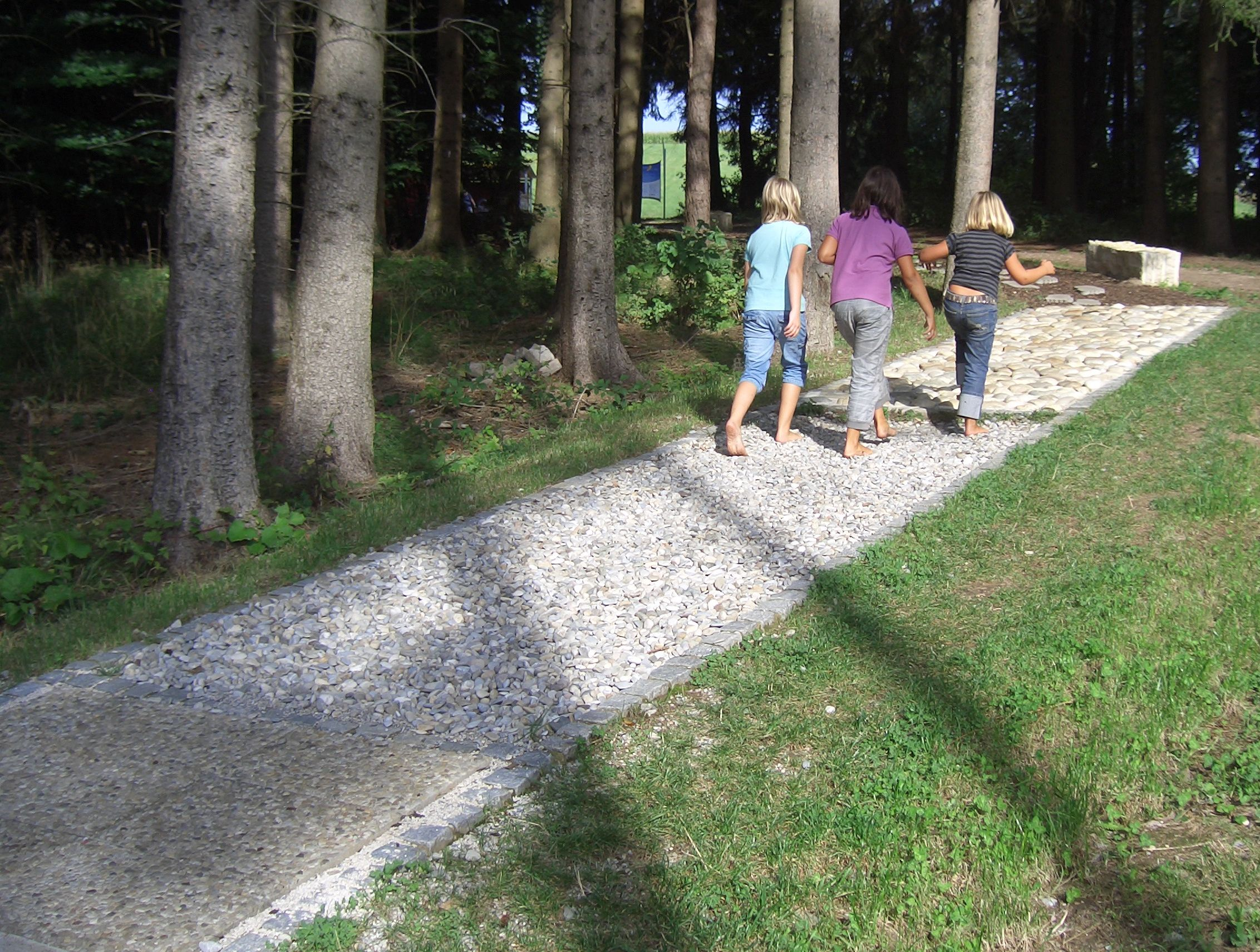 Barefoot trail Spalt, Germany